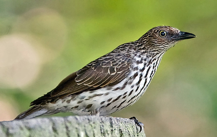 Violet-backed Starling - female